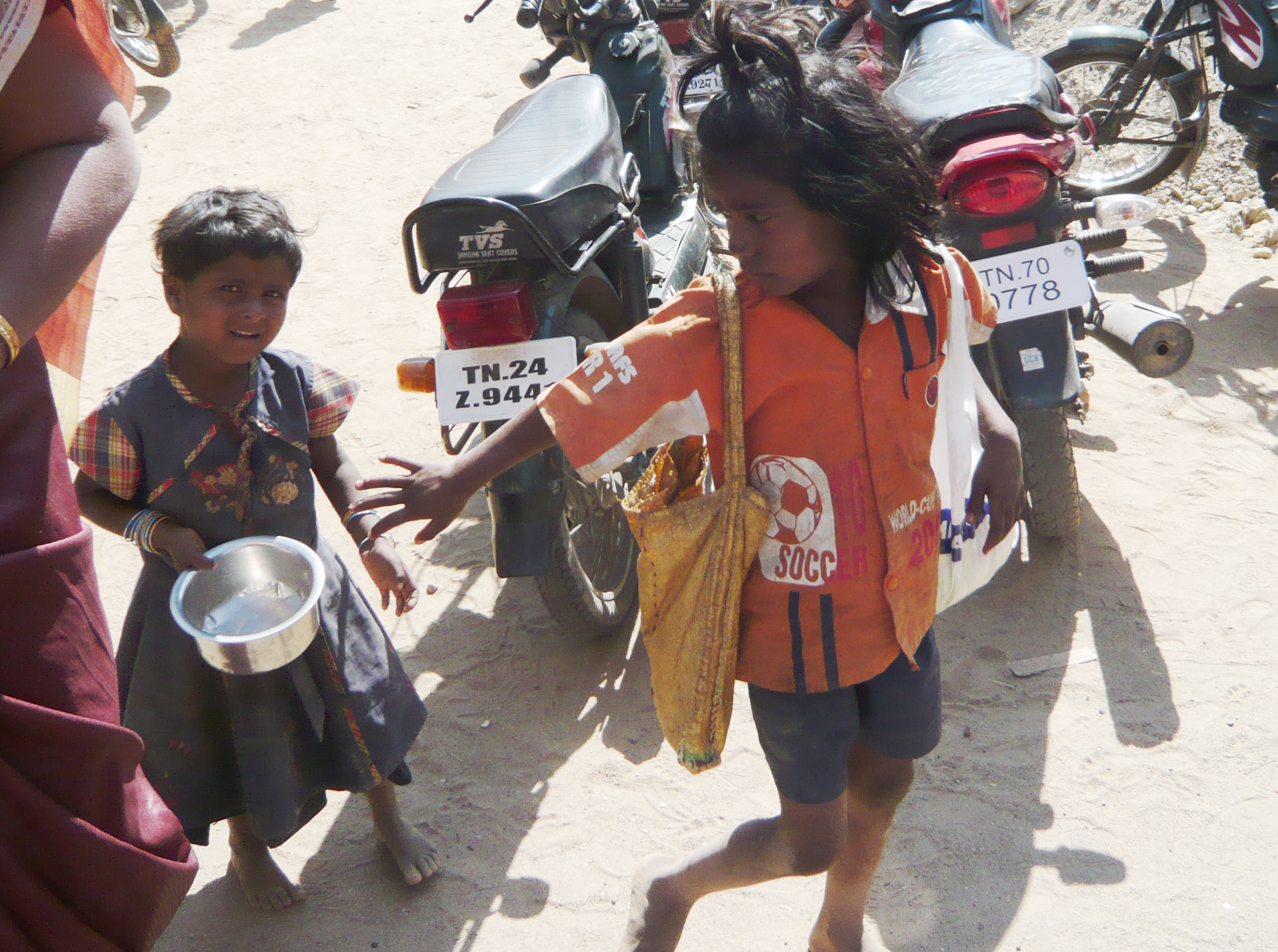 Child beggers begging infront of a church on a sunday morning. This begging children belong to a tribal sect of Andhra Pradesh which has begging as the only occupation.